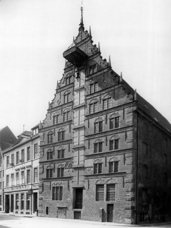 The Neue Kornhaus (“New granary”) built 1591 in Bremen, Germany, destroyed 1944.